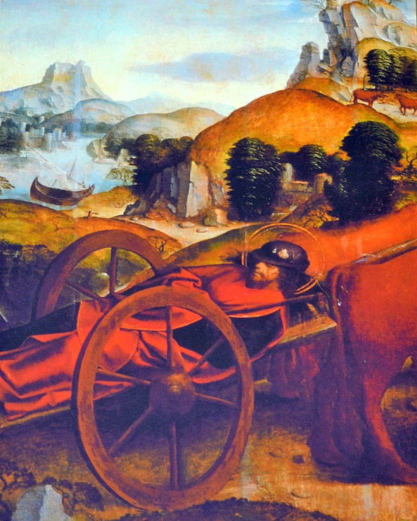 O Corpo de São Tiago conduzido ao Paço da Rainha Loba é uma pintura a óleo sobre madeira pintada no período de 1520 a 1530 presumivelmente pelo pintor que se designa por Mestre da Lourinhã, mede 128 cms de altura e 84 cms de largura, e fazia parte do Políptico da Igreja do Convento de Santiago, encontra-se actualmente no Museu Nacional de Arte Antiga, em Lisboa